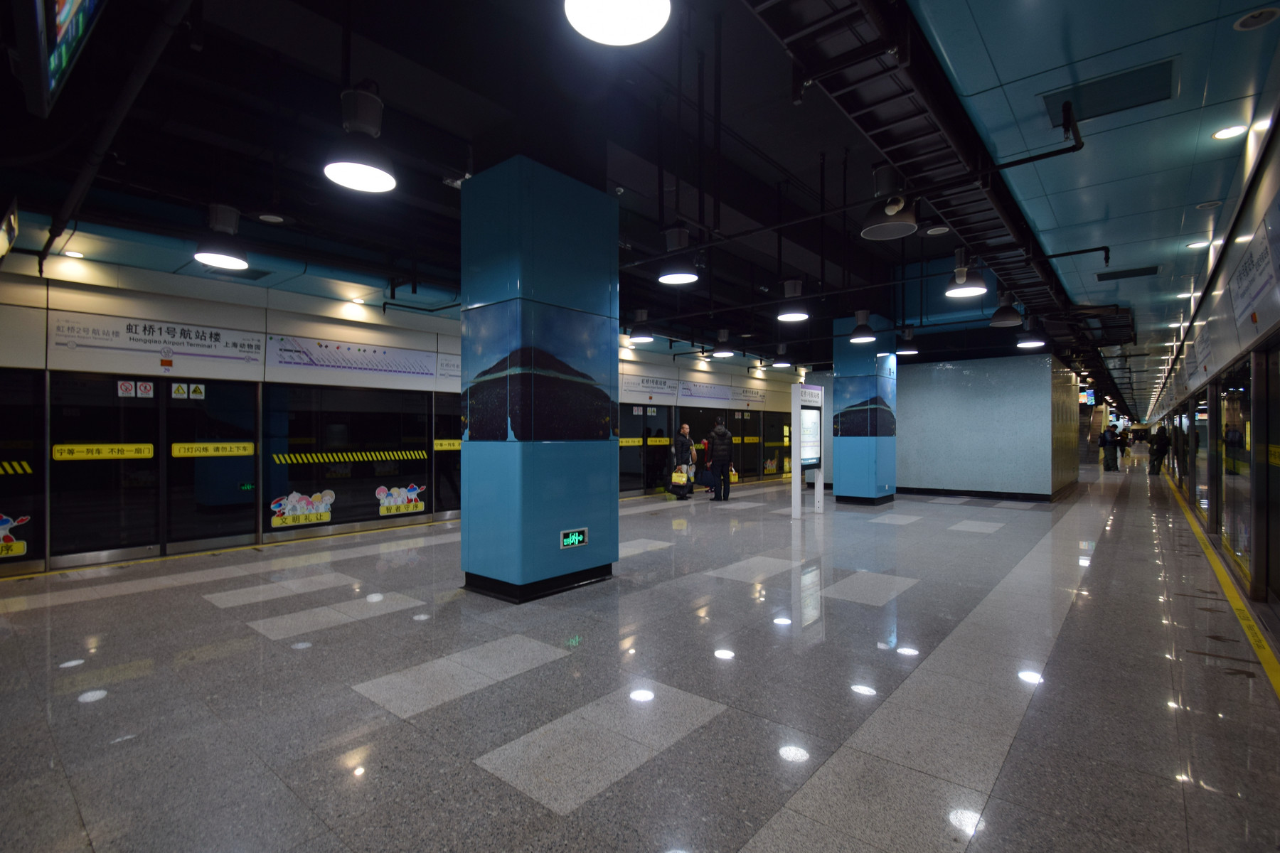 Line 10 Platform of Hongqiao Airport Terminal 1 Station, Shanghai Metro